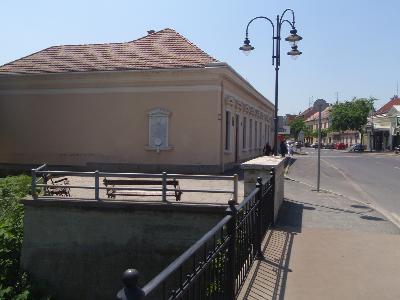 statue of Saint Quirinus of Siscia in Szombathely, Nearby killed, Today Perint coast Óperint street corner